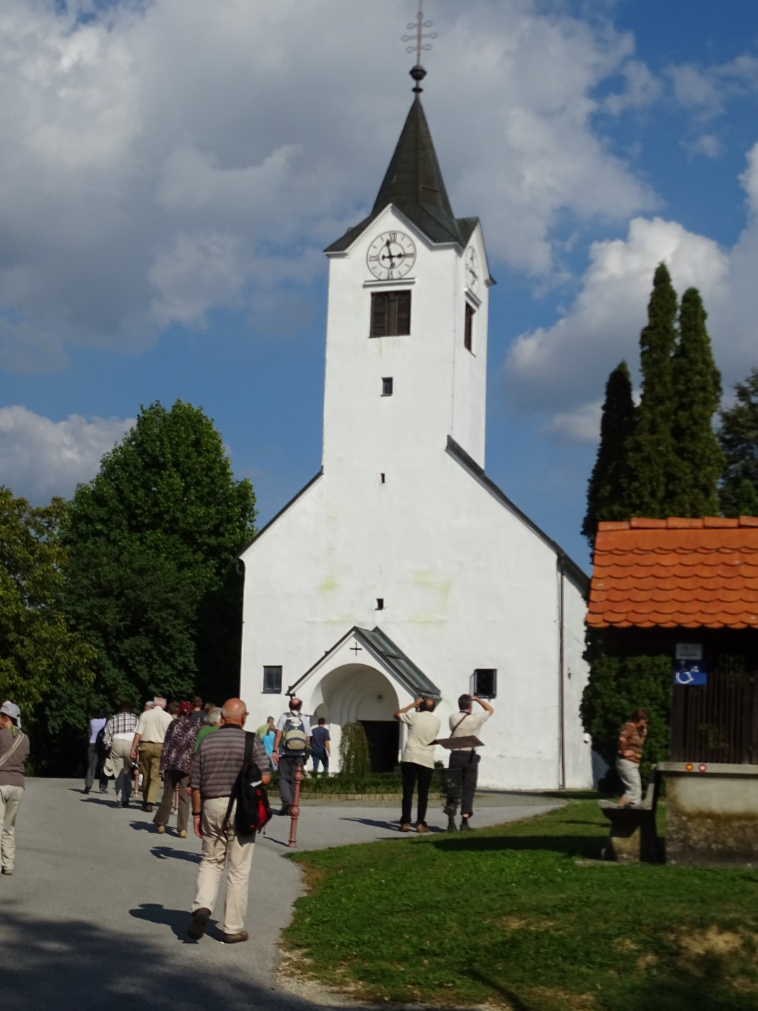 Kog - Church of St. Bolfenk